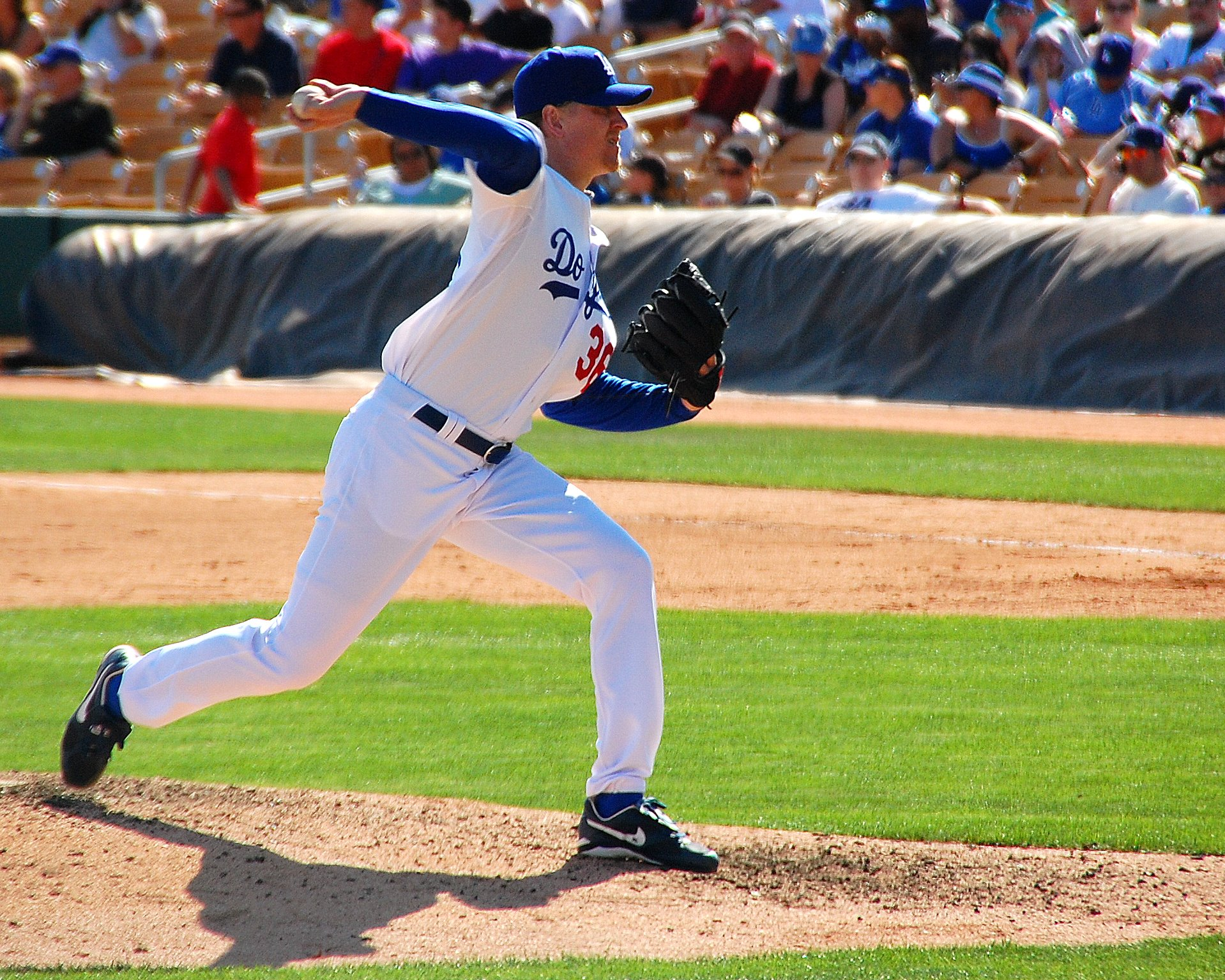 Jeff Weaver